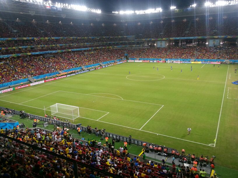 2014 WC Costa Rica vs Greece 1:1 (5:3), game played on June 29th 2014